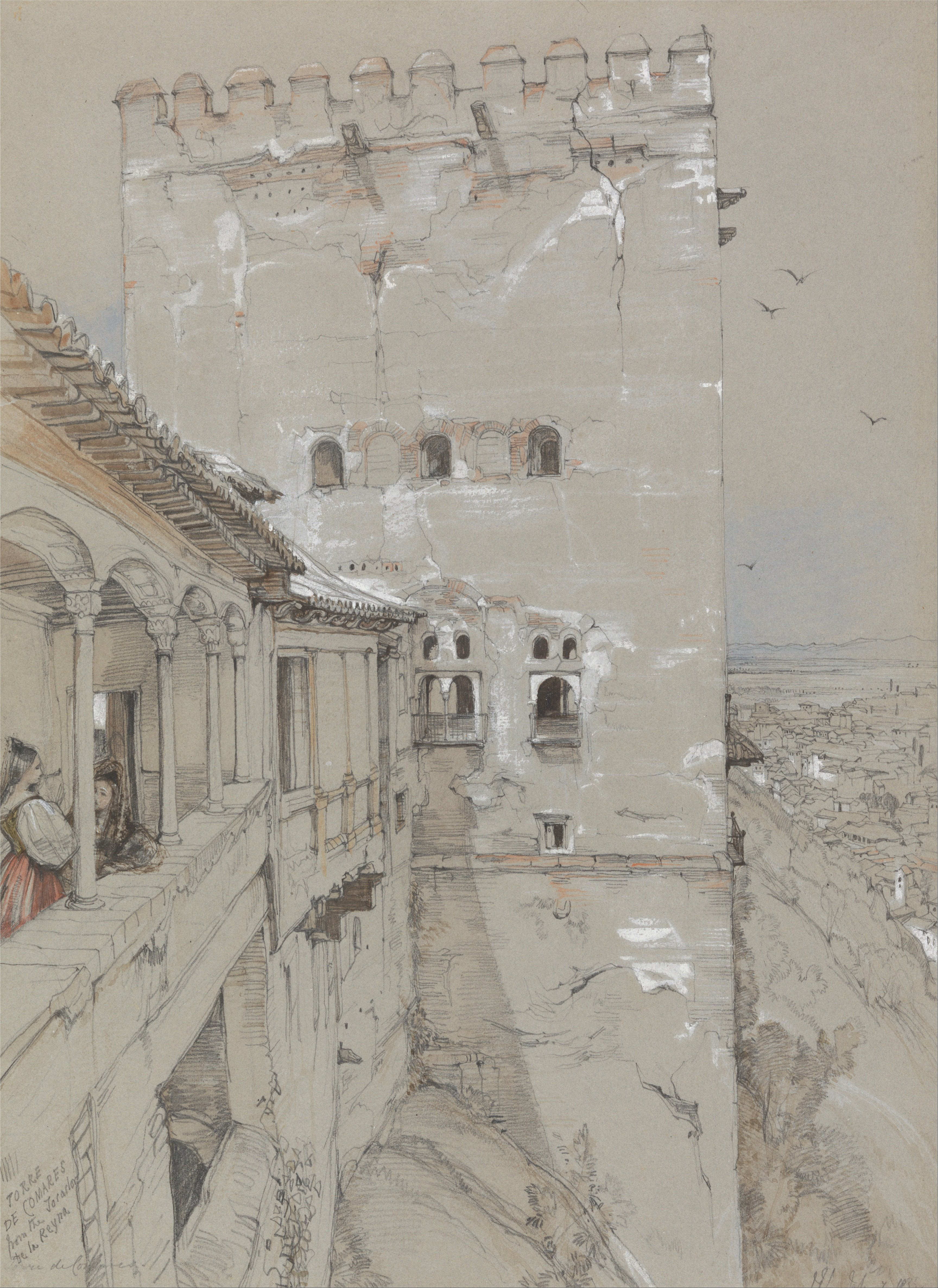 Architectural subject